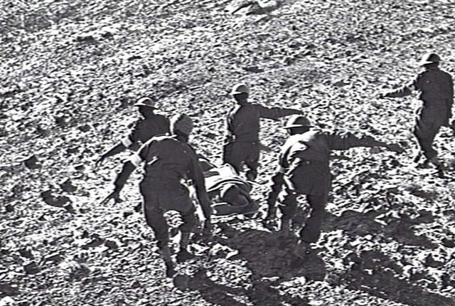 Tunisia. 1942. Field ambulance stretcher bearers of the Indian Medical Service (Indian Army) carry a member of a Gurkha battalion during the Eighth Army's attack on the Mareth Line in the Tunisian Hills. (British Admiralty Photograph, BNA1102).